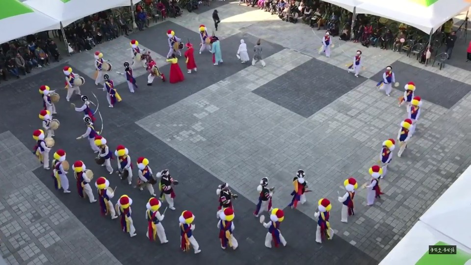 screenshot of the Youtube 'Imsil pilbong nongak'